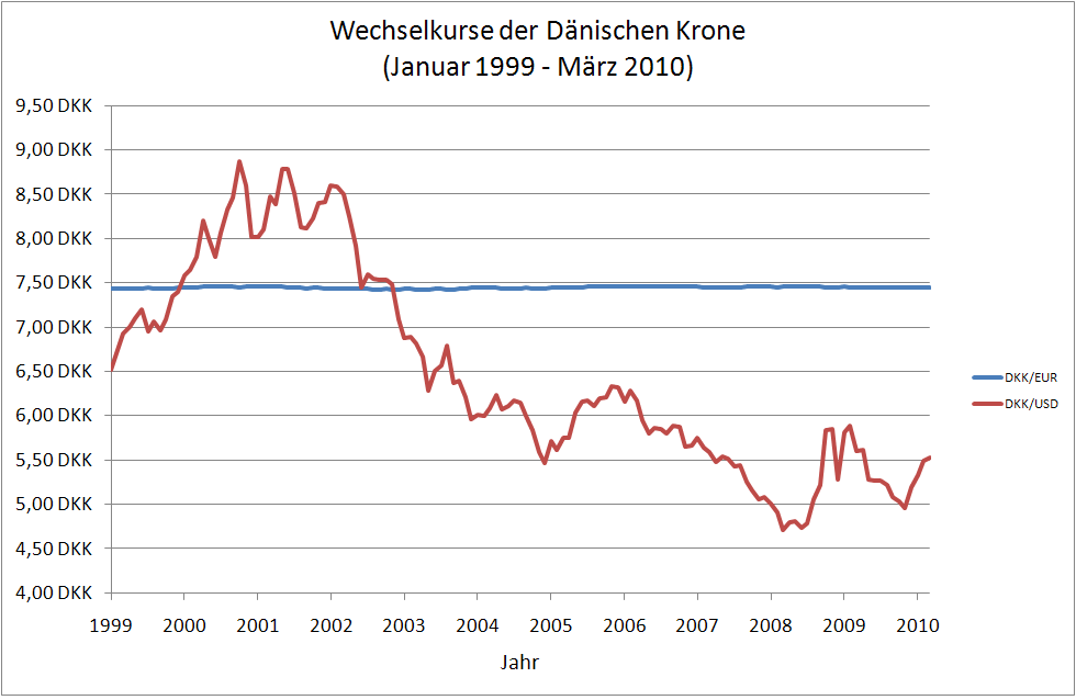 Exchange rates: danish krone to euro and danish krone to us-dollar period: 01.01.1999 - 31.03.2010